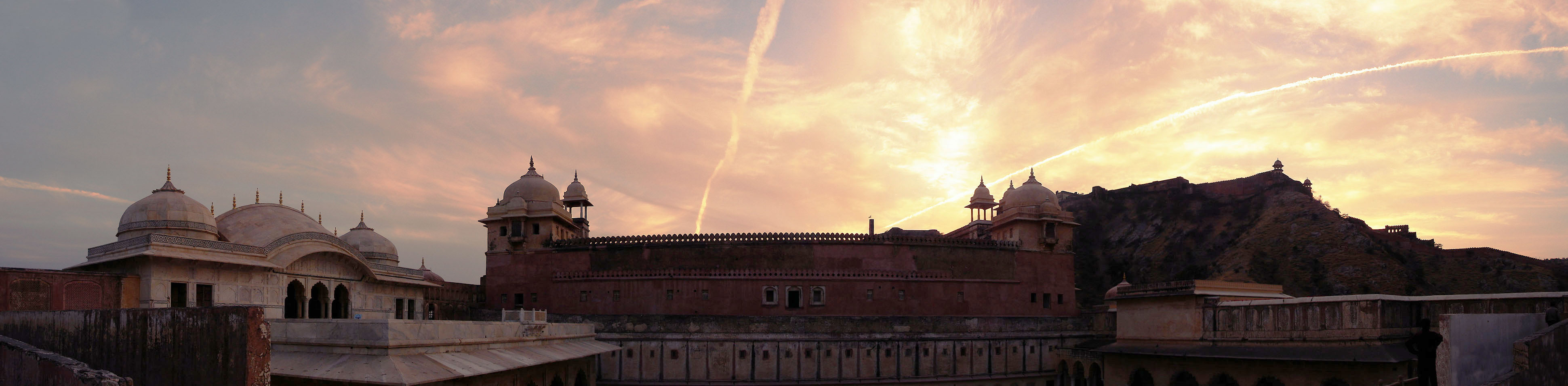 A panoramic view of Amer Fort, Jaipur during sunset